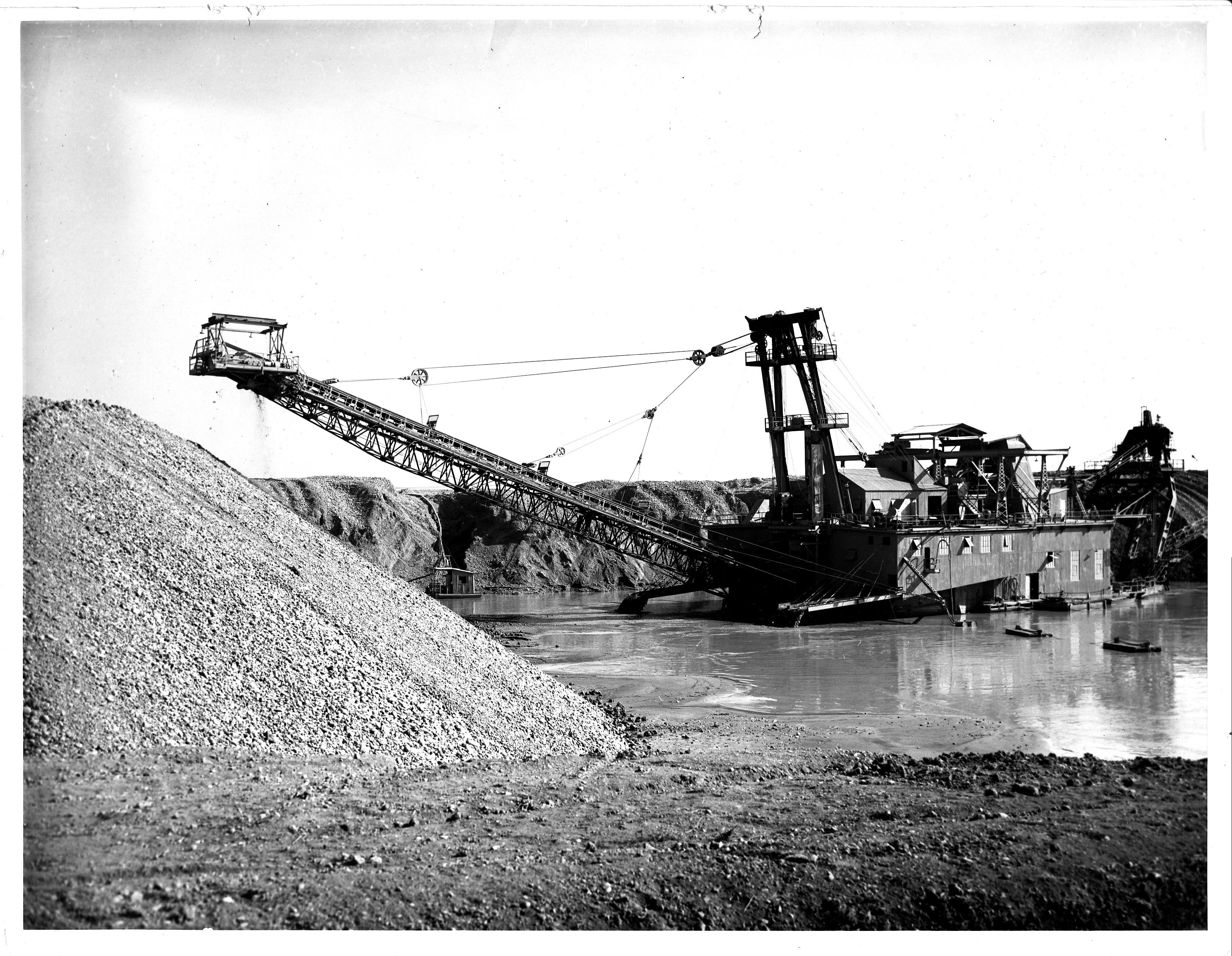 Photograph of the Natomas Number 6 gold dredge operating in Folsom, California by the Natomas Company. This was the last operating dredge of its kind in California, operating until 12 February 1962